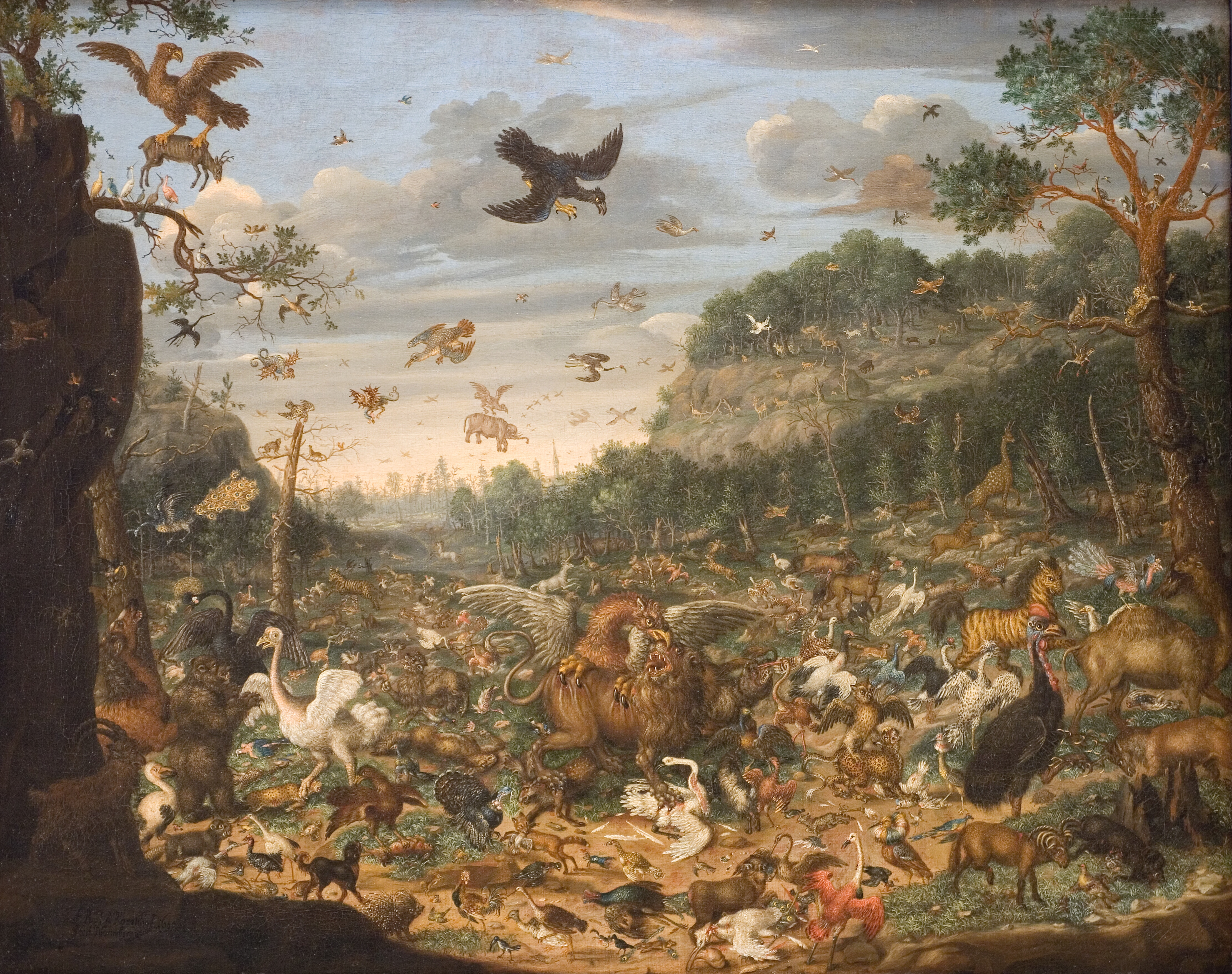 Jorden efter syndefaldet. 1690. Oil on canvas. 64,5x82,5 cm. Modtaget 1905, juli. Inventarnr.: KMS1899 National Gallery of Denmark The white dodos pictured have not been previously mentioned in the literature, but the image was figured in the following catalogue, after I (the uploader here) notified researcher J. P. Hume about it in 2011:[1]